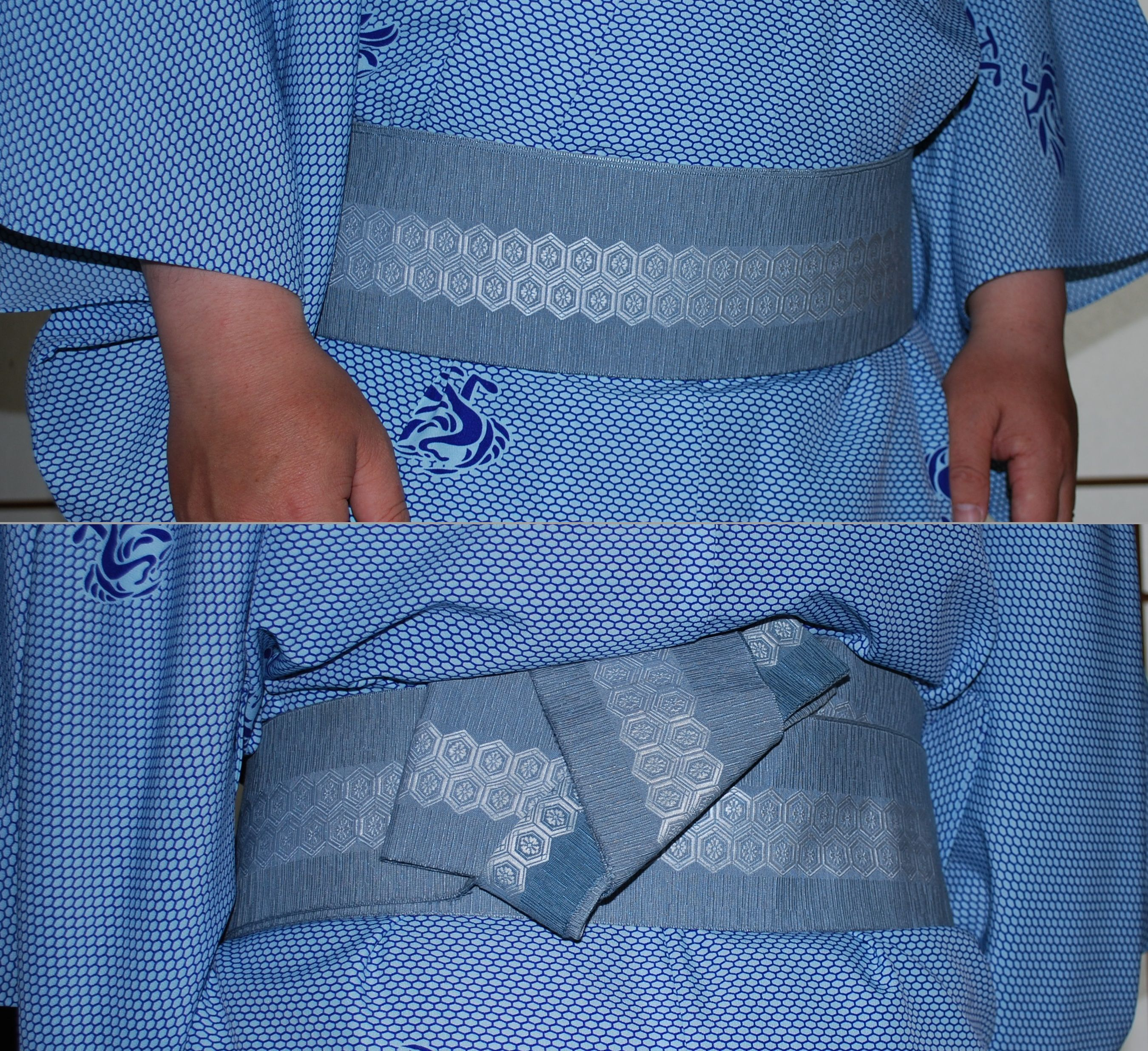 Stiff obi,Kaku-obi,Katori-city,Japan. The upper:out of front,The lower:out of the rear.